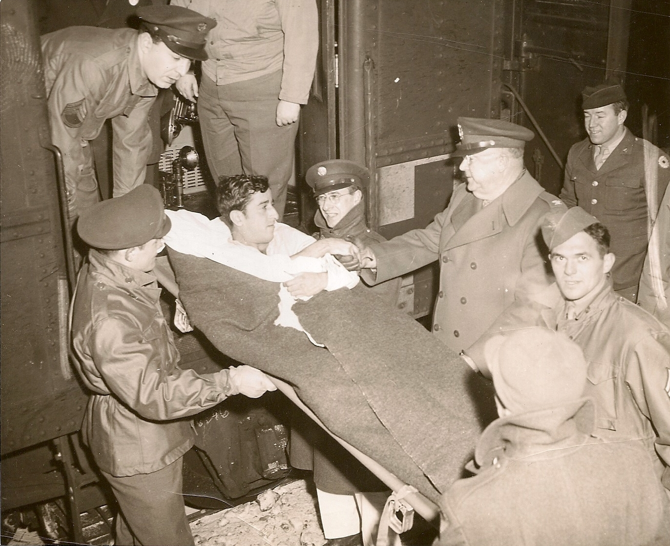 The first ambulance train to deliver wounded soldiers directly to Gardiner General Hospital in Chicago.